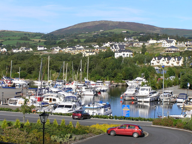 View of Marina from Kincora Hall Hotel, Killaloe